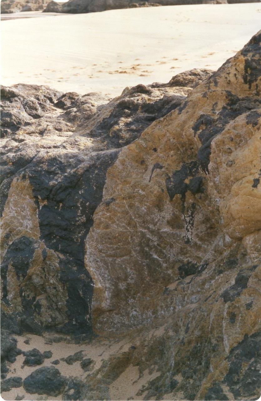 Txapapote in the Basque coast (San Juan de Gaztelugatxe)